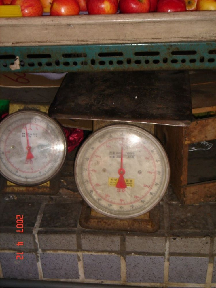 scale